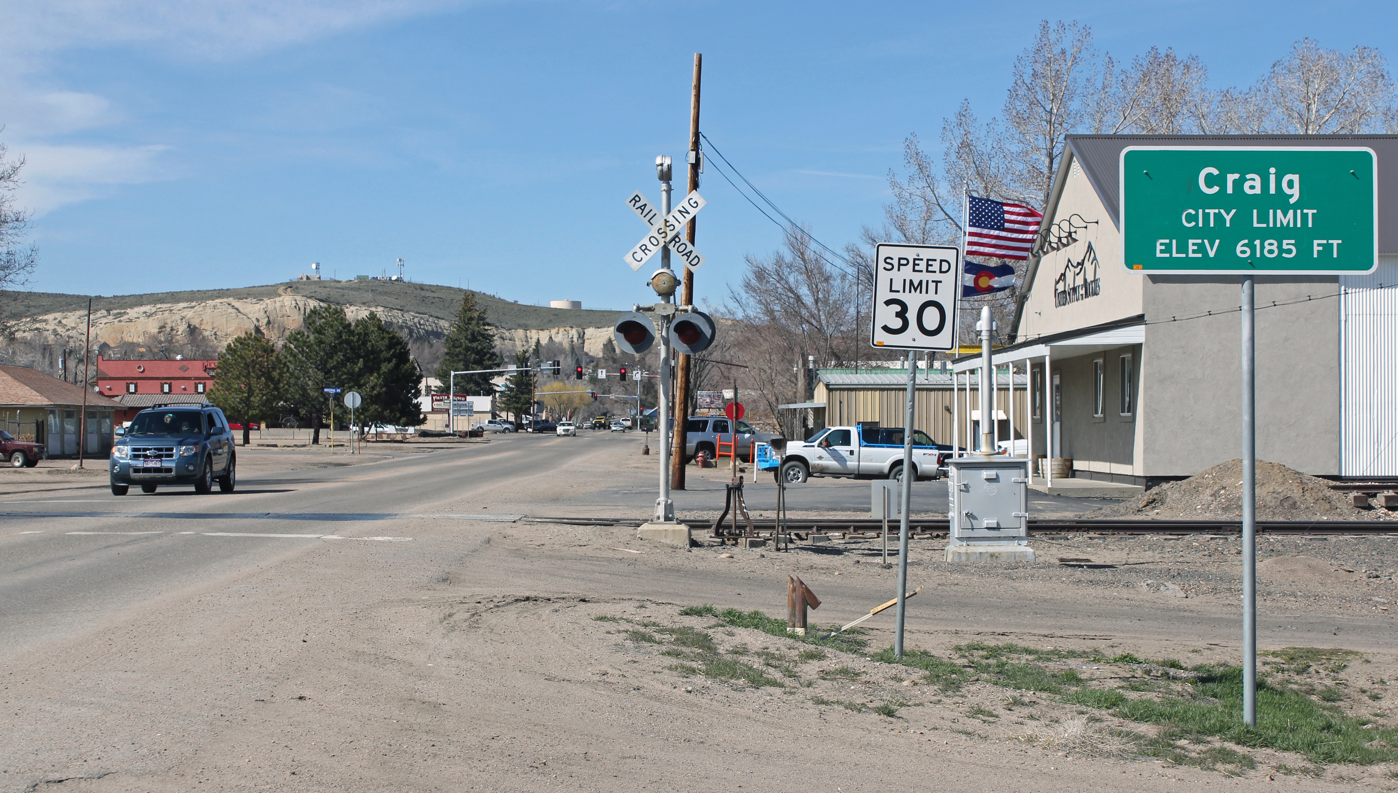 The town of Craig, Colorado. The view is to the north, on South Ranney Street.